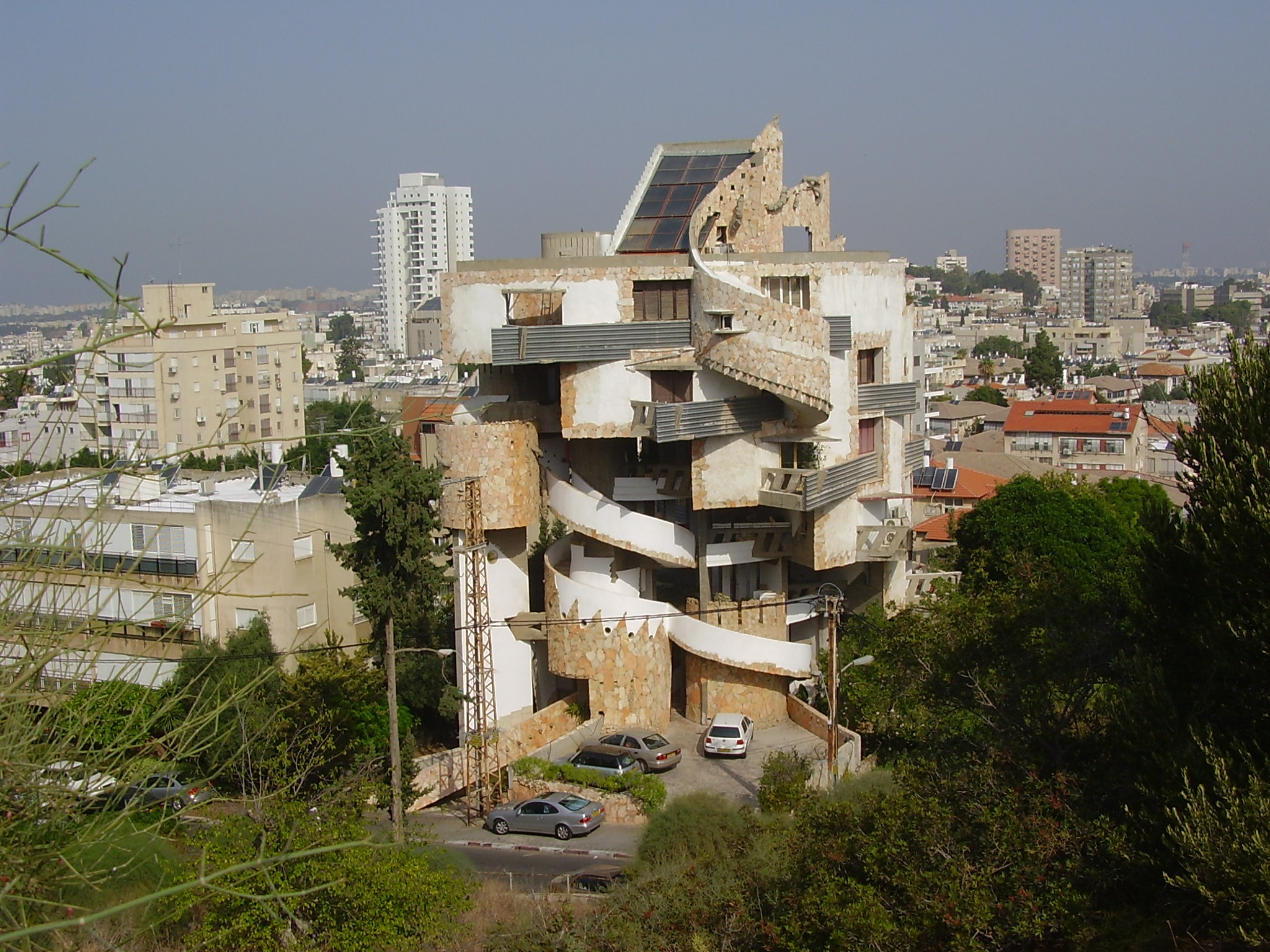 \"spiral house\" in ramat-gan